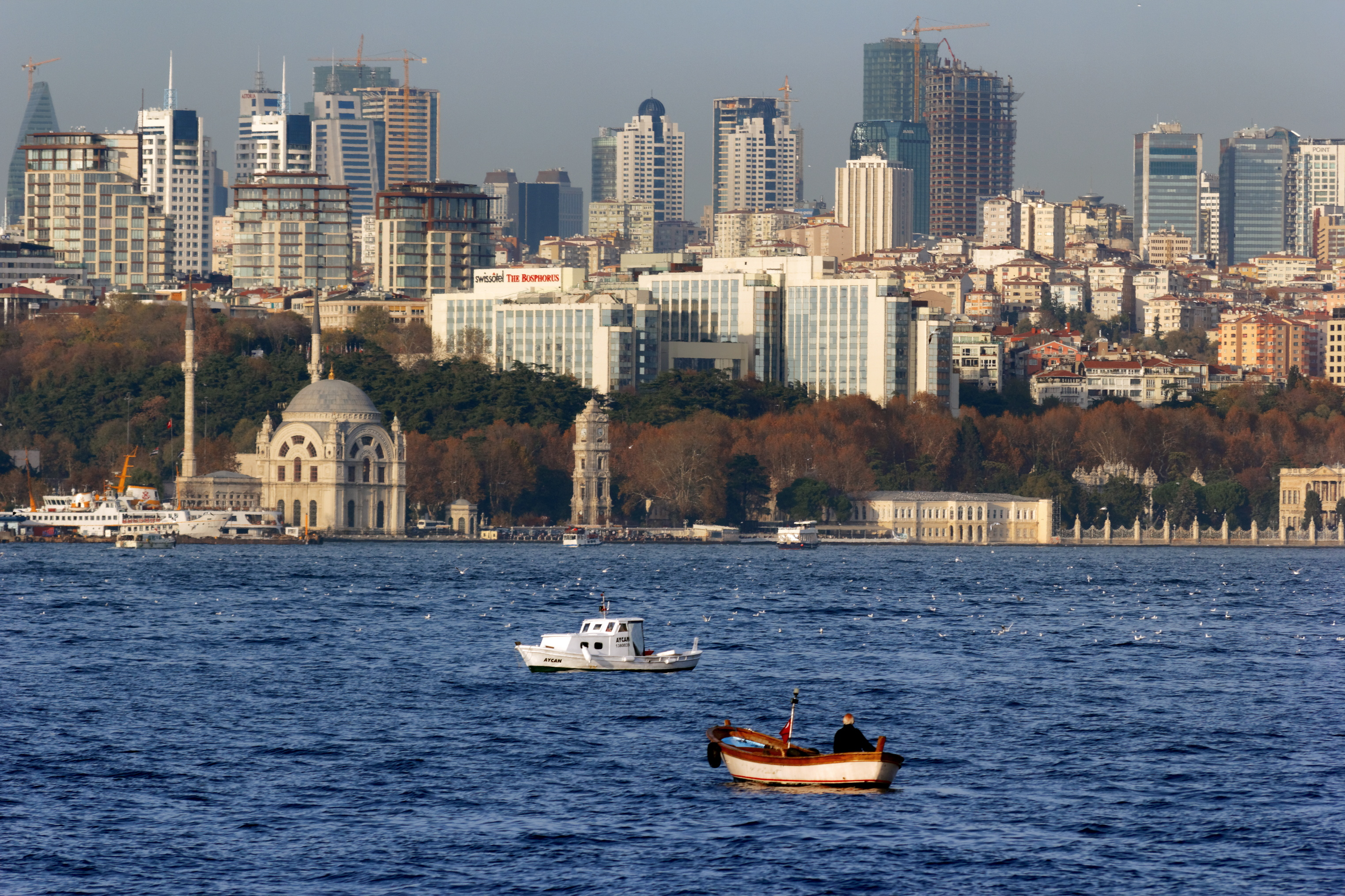 Istanbul. Bosphorus